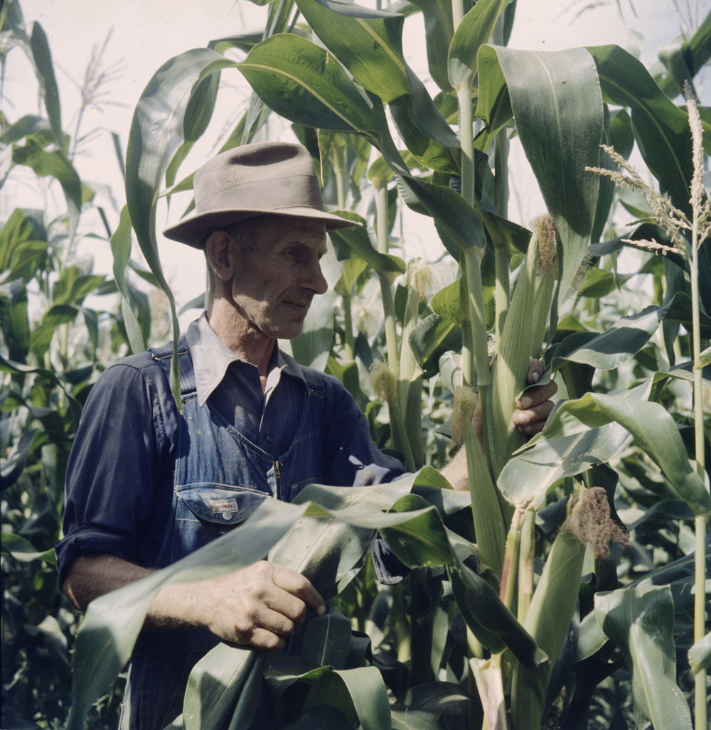 Title / Titre : A farmer in the foreground examining the stalks and looking at some ears of corn on some very tall plants, Ontario / Un cultivateur examine des plants de maïs plus hauts que lui (Ontario) Creator(s) / Créateur(s) : Herb Taylor Date(s) : 1957 Reference No. / Numéro de référence : MIKAN 4301586, 4313895 Location / Lieu : Ontario, Canada Credit / Mention de source : Herb Taylor. Canada. National Film Board of Canada. Library and Archives Canada, e010975636 / Herb Taylor. Canada. Office national du film du Canada. Bibliothèque et Archives Canada, e010975636